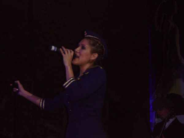 Vanessa Petruo live 2008